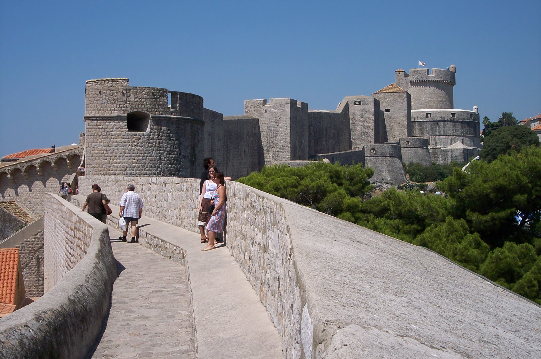 Walls of Dubrovnik (Croatia).